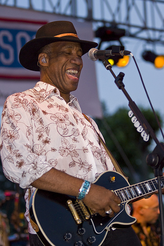 Kimo Williams playing with the Lt. Dan Band at Yongsan US Army Garrison in Seoul, Korea.